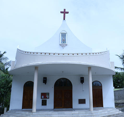 St Judes Church, Assisi Nagar, Website of St Judes Church